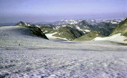 Whitechuck Glacier on Glacier Peak, Washington, United States